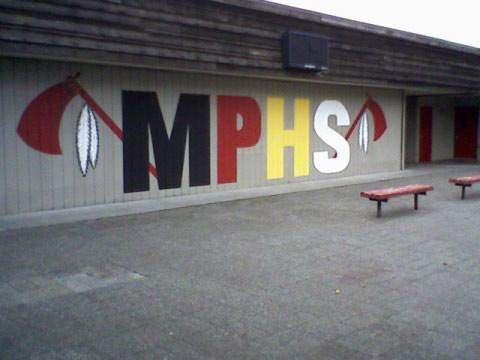 Photograph taken on Mobile phone of Marysville Pilchuck High School. Photo of Art Mural at school. Taken in October of 2009 after school hours.